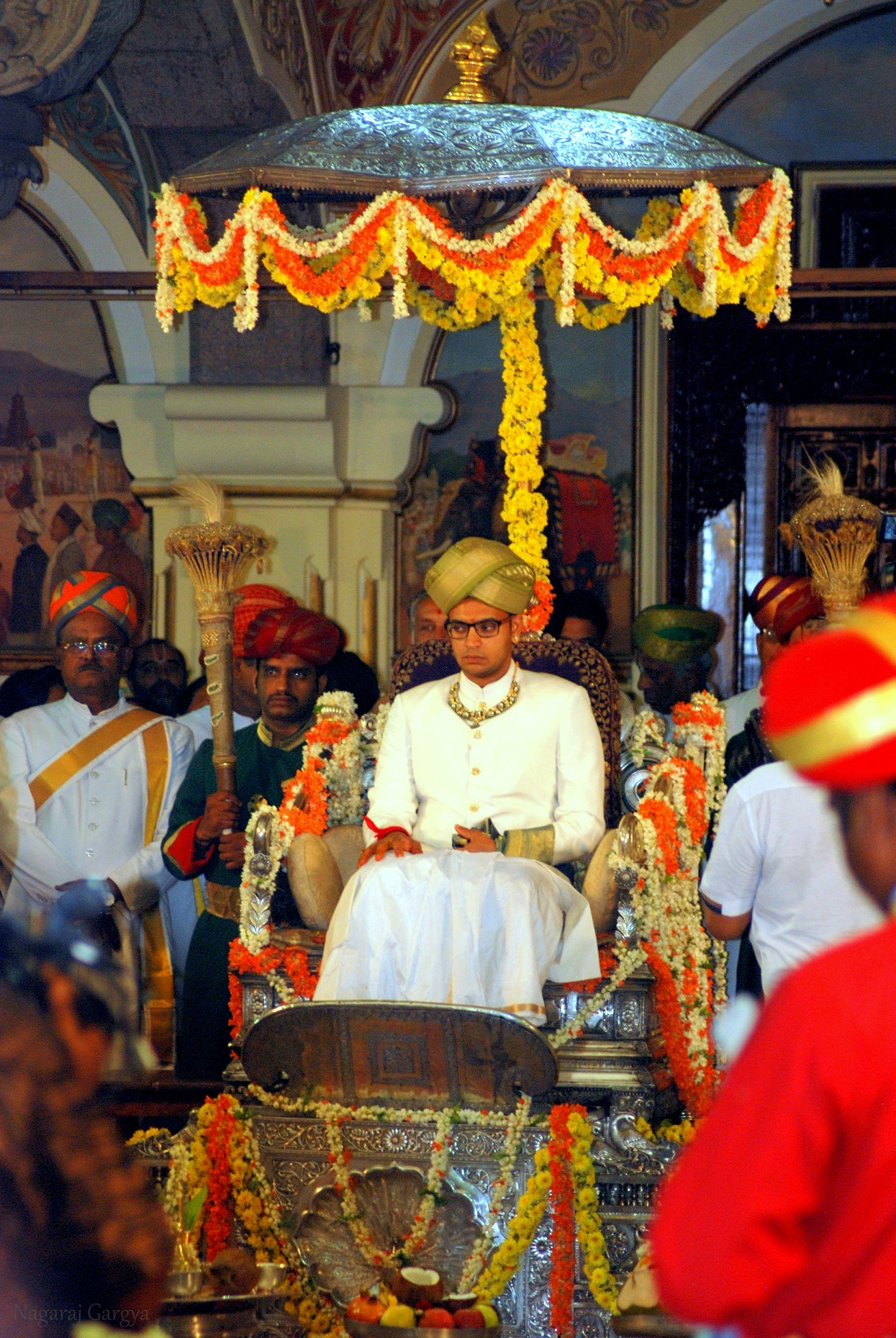 This is the picture I took on the Coronation day of 27th and present titular Maharaja of Mysore and head of the former ruling Wadiyar dynasty Sri Yaduveer Krishnadatta Chamaraja Wadiyar.